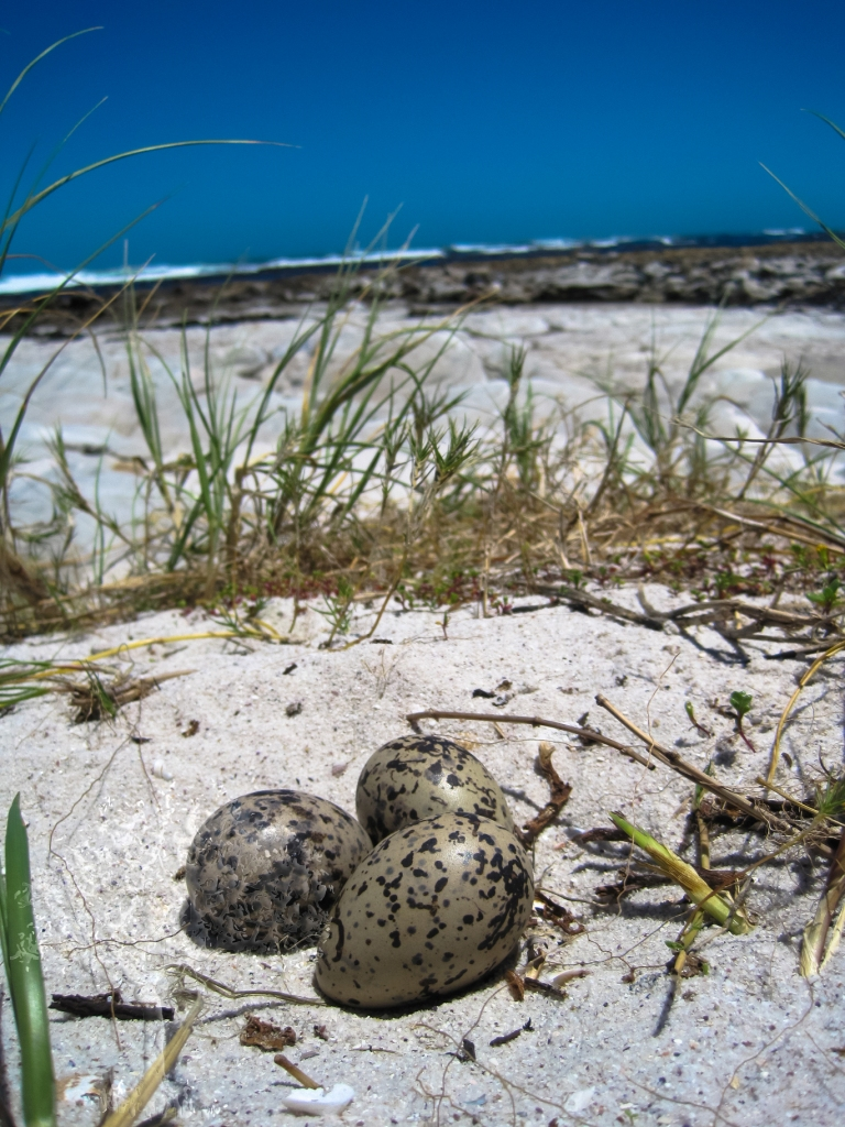 Oystercatcher nest three eggs